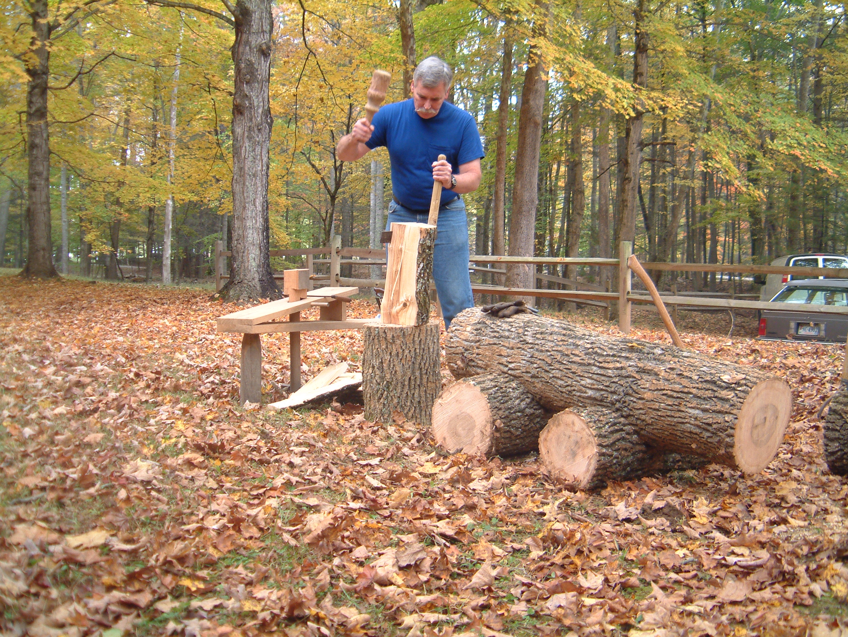 DO - Apple Day Civilian Conservation Corps Demonstration Shingle Making (Gladden)